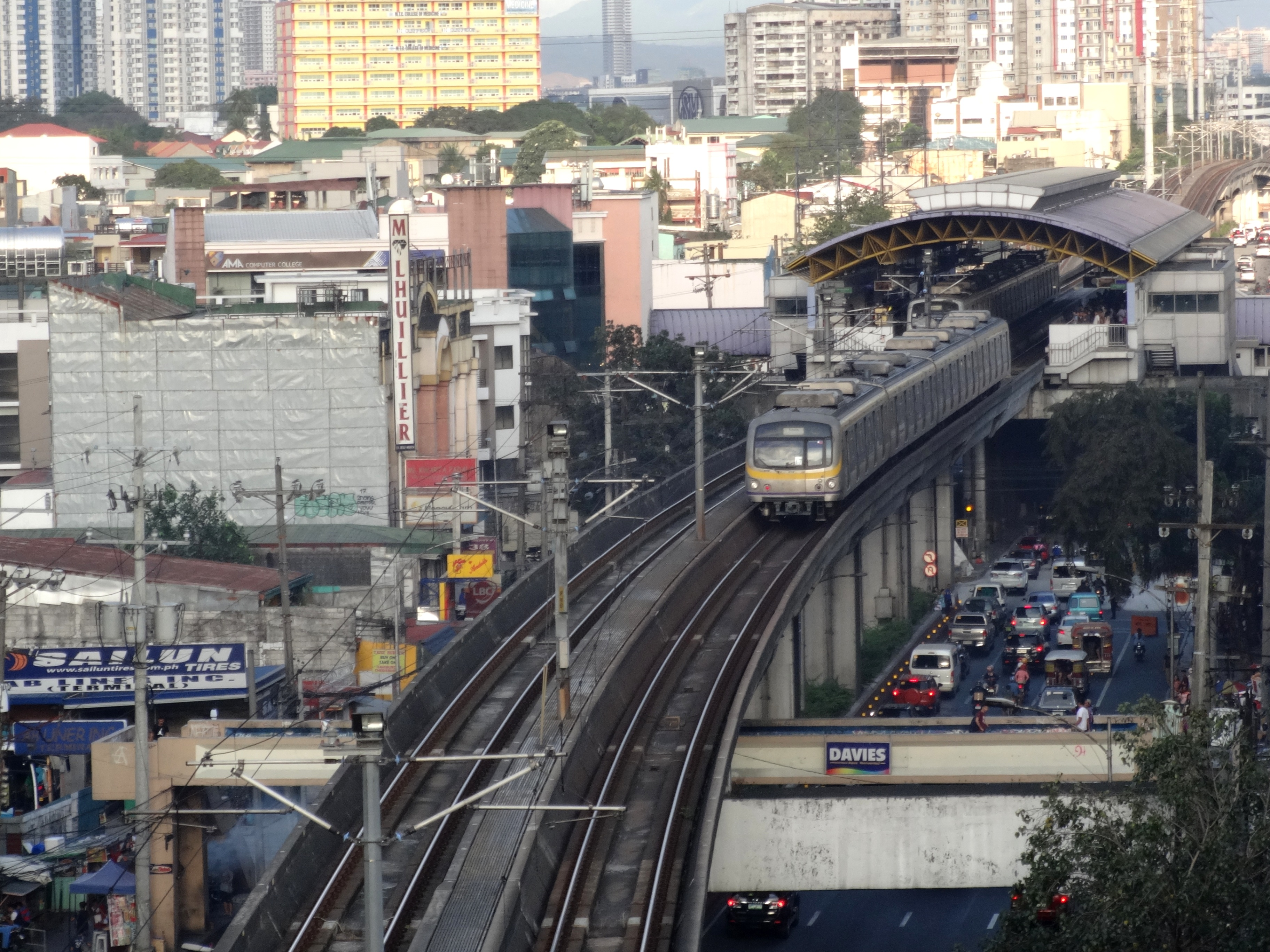 Line 2 Pureza Station at Magsaysay Boulevard (N180) corner Pureza Street, Santa Mesa, Manila